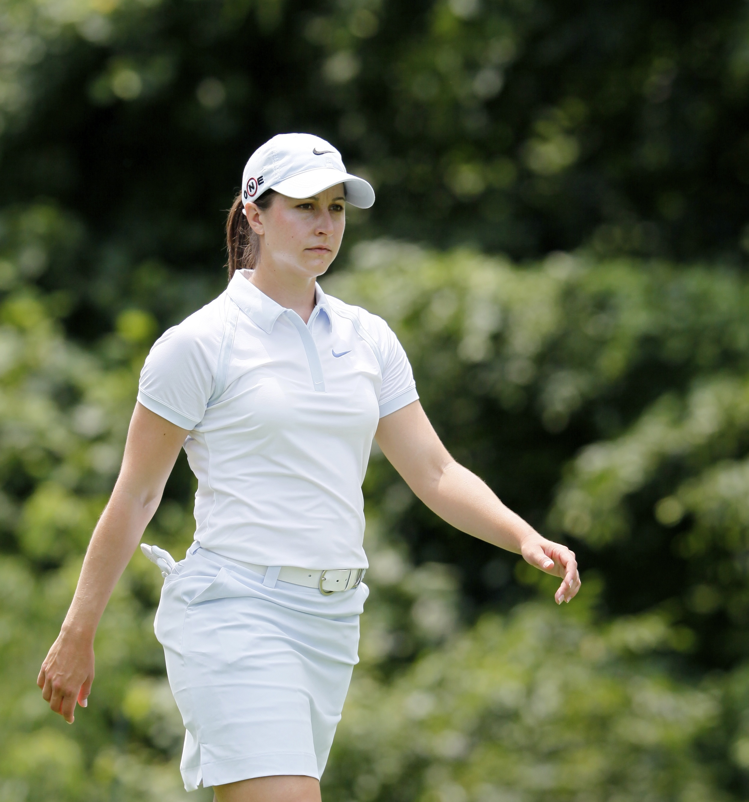 HAVRE DE GRACE, MD - JUNE 10: Paige Mackenzie (USA) during practive round before 2009 LPGA Championship held at Bulle Rock Golf Course, on June 10, 2009 in Havre de Grace, Maryland. (Photo by Keith Allison)